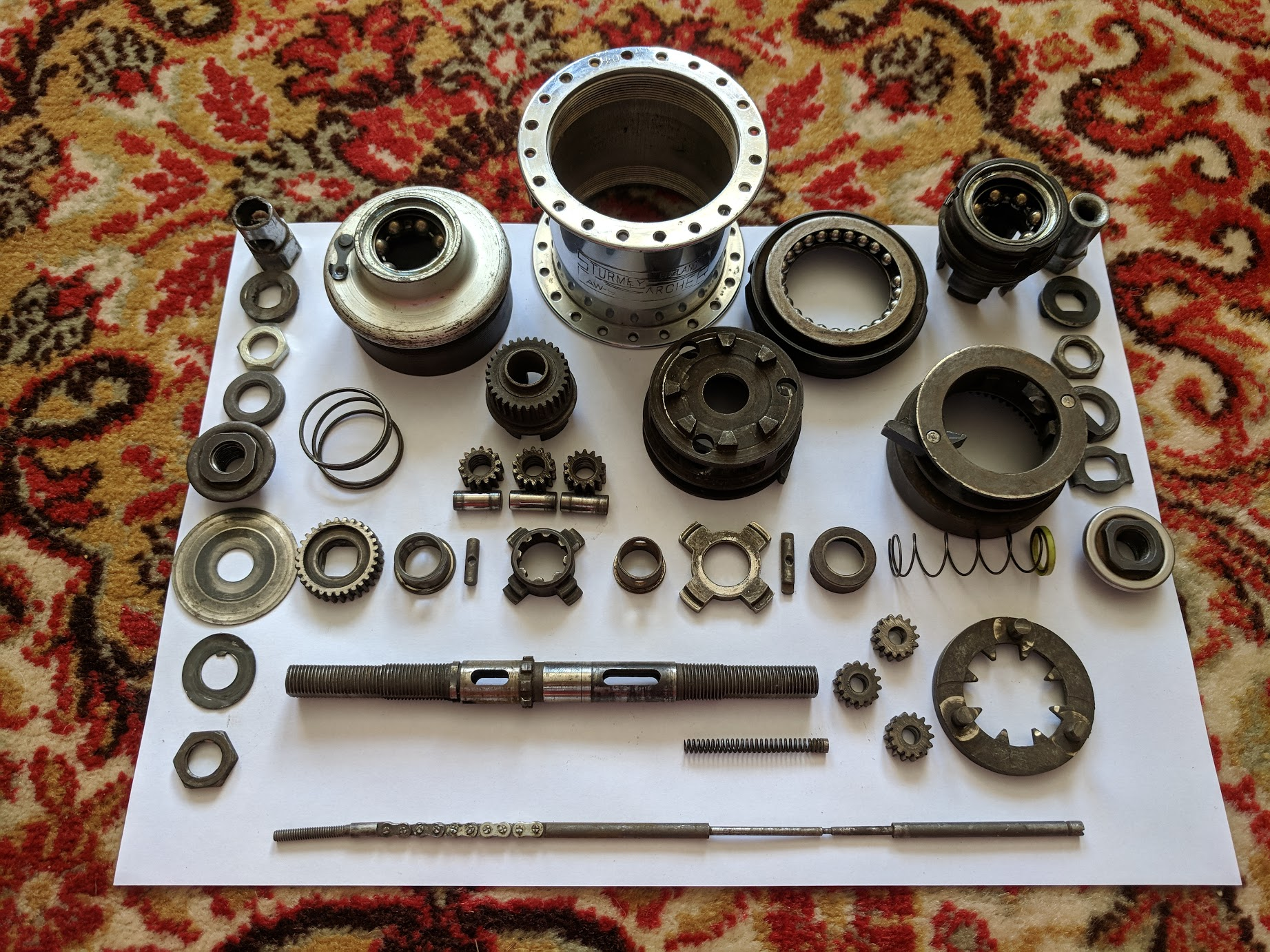 A tray containing the internal compomnent parts of a Sturmey Archer FM 4 speed gear hub